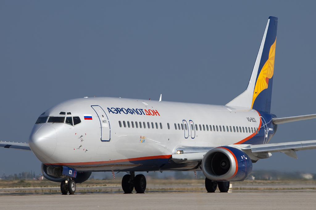 VQ-BCS B737 Aeroflot Don